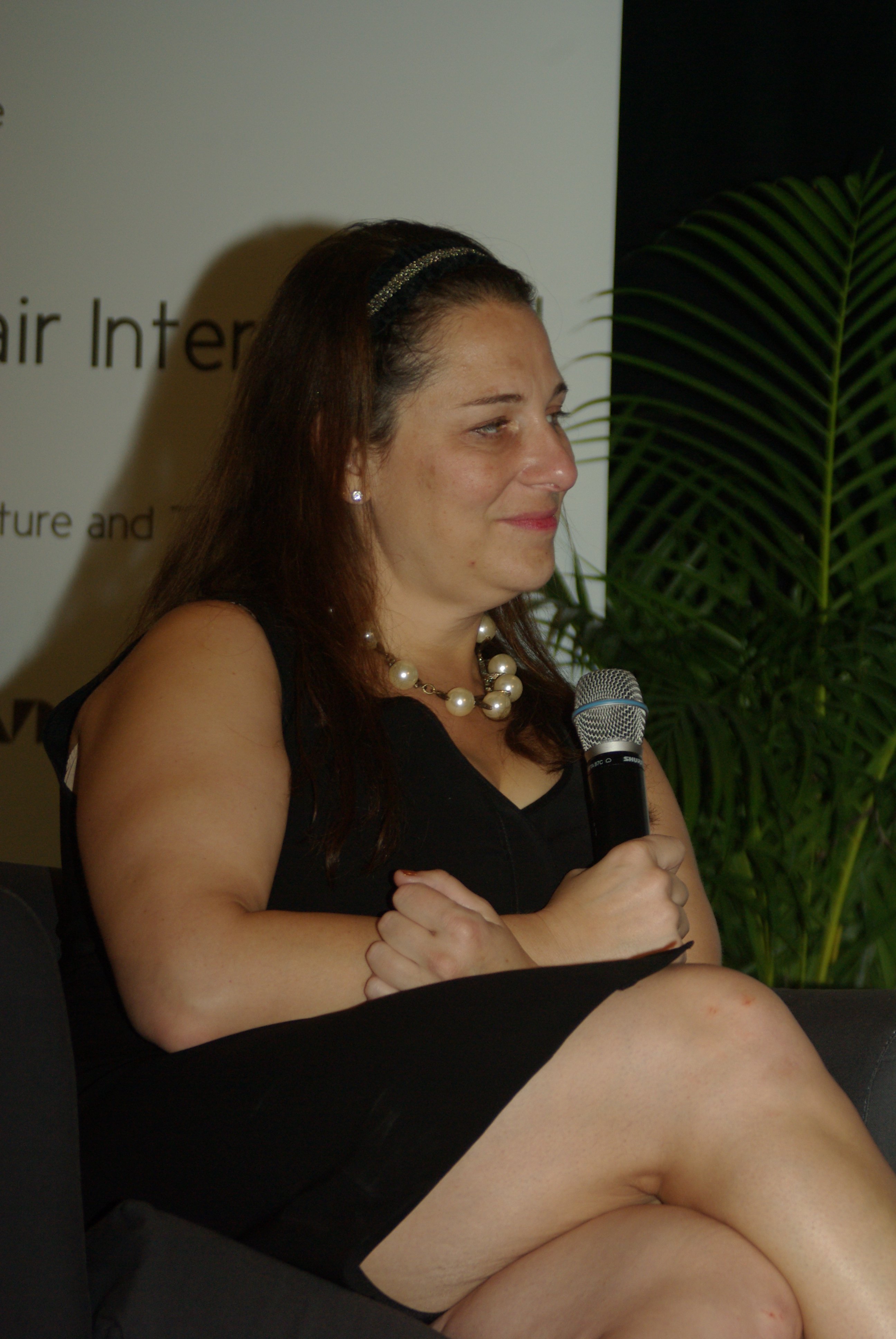 Jennifer Weiner at the Miami Book Fair International 2013